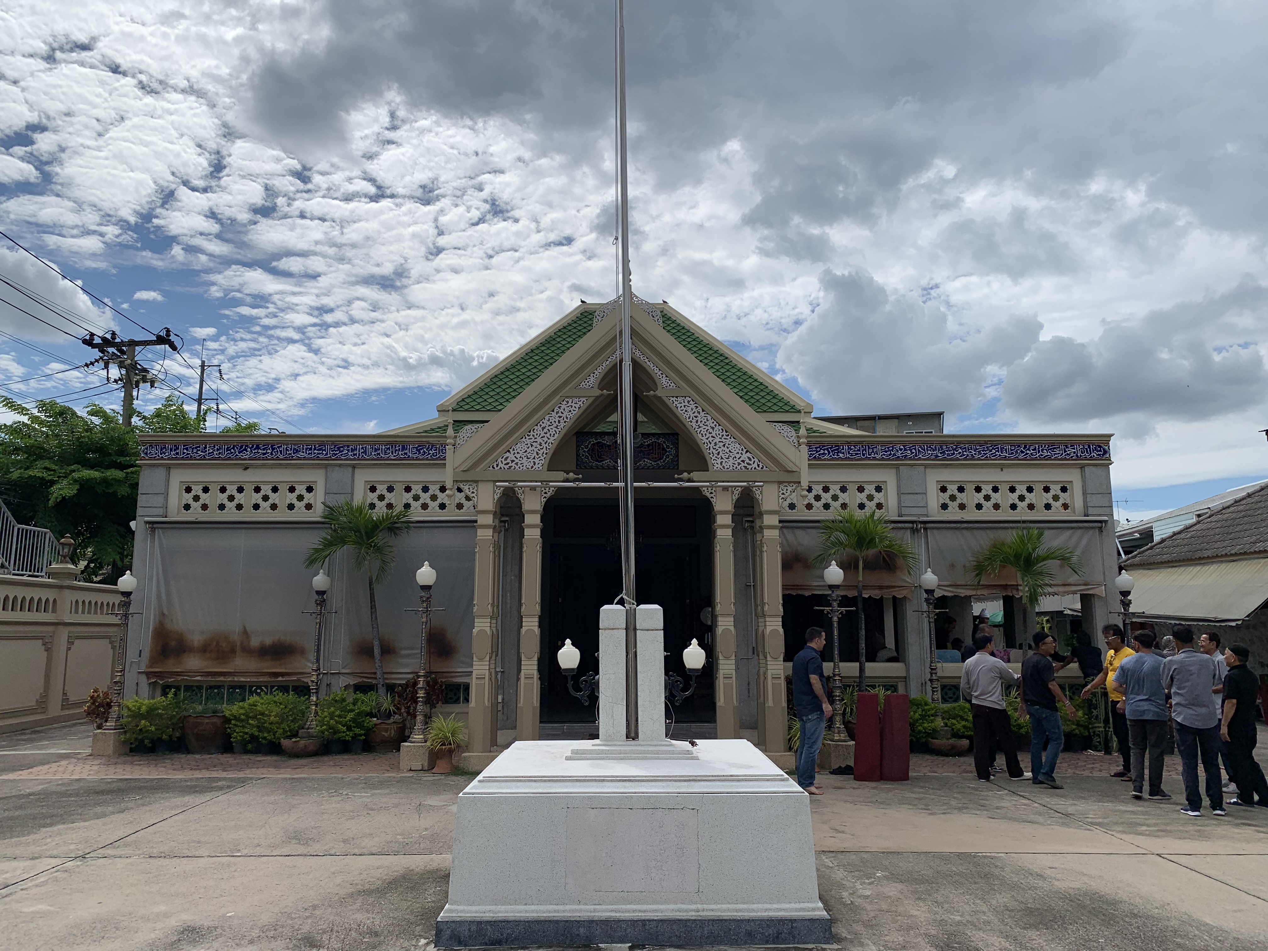 Kudi Charoen Phat